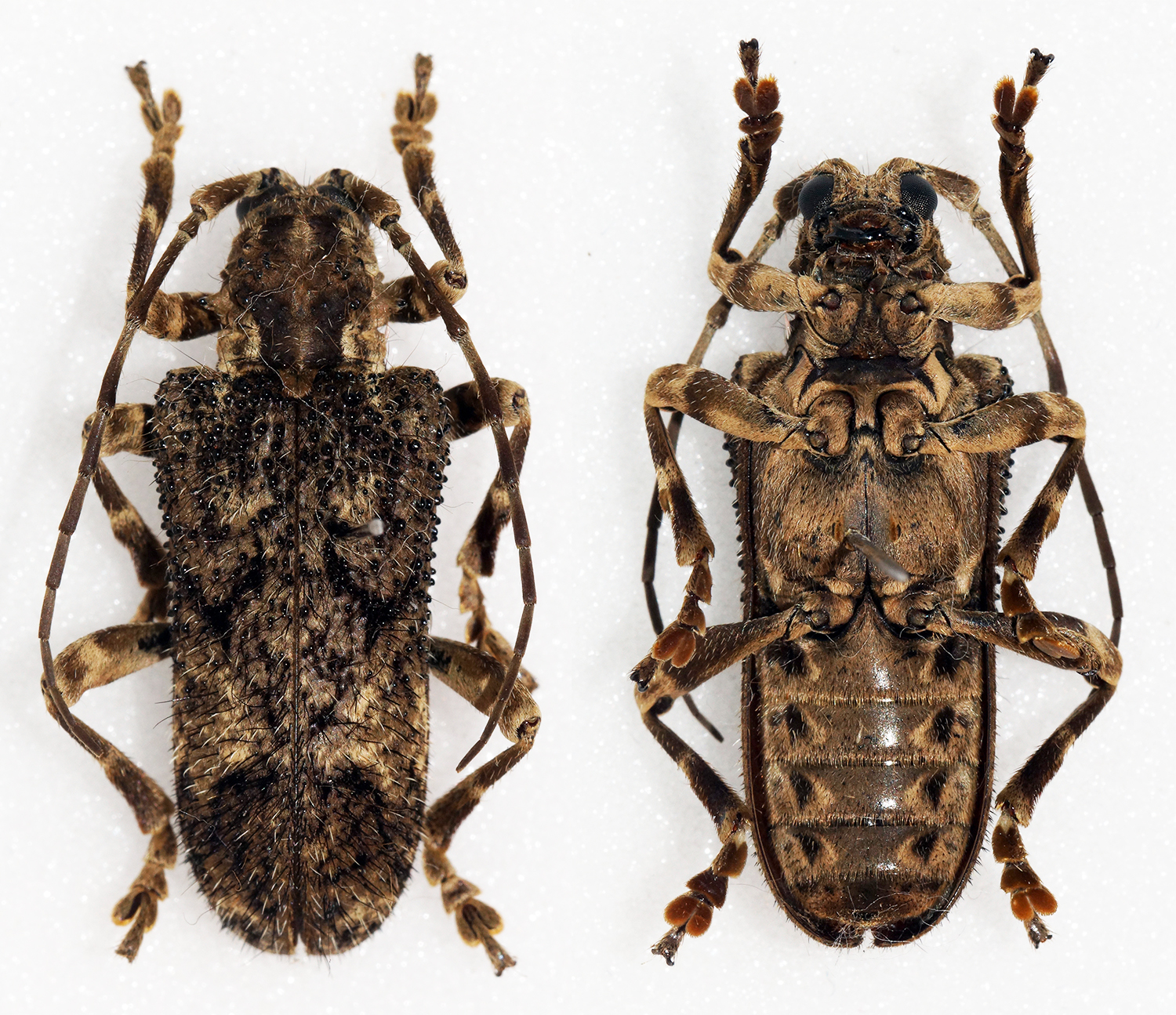 Jordan,1894 Sex: ? Data: 01-01-11 - Multinodo Wild Area 1450m - North Zambia - Zambia Size: 26mm